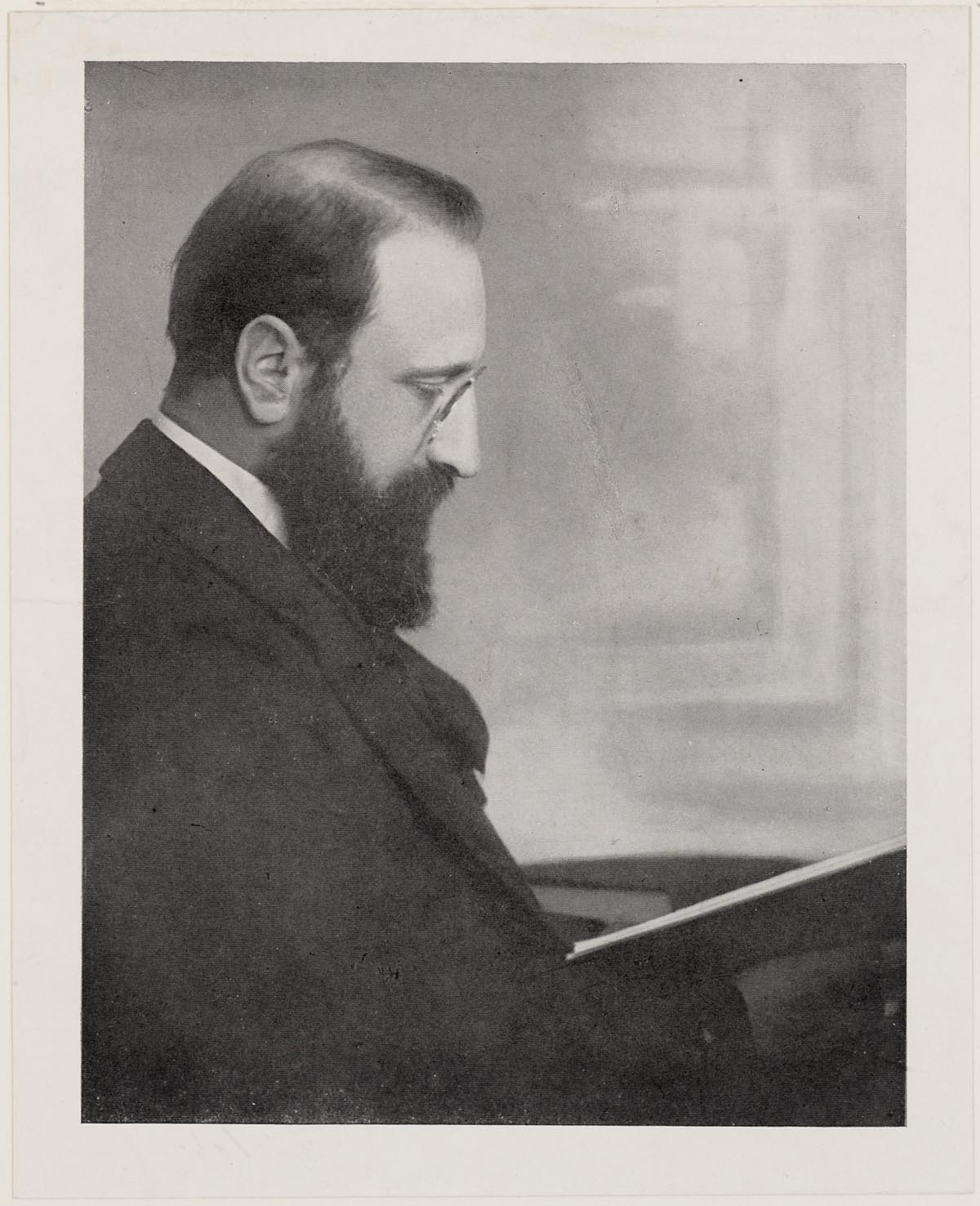 Dutch poet C.S. Adama van Scheltema. Photo in Collection Letterkundig Museum Den Haag (Nederland)